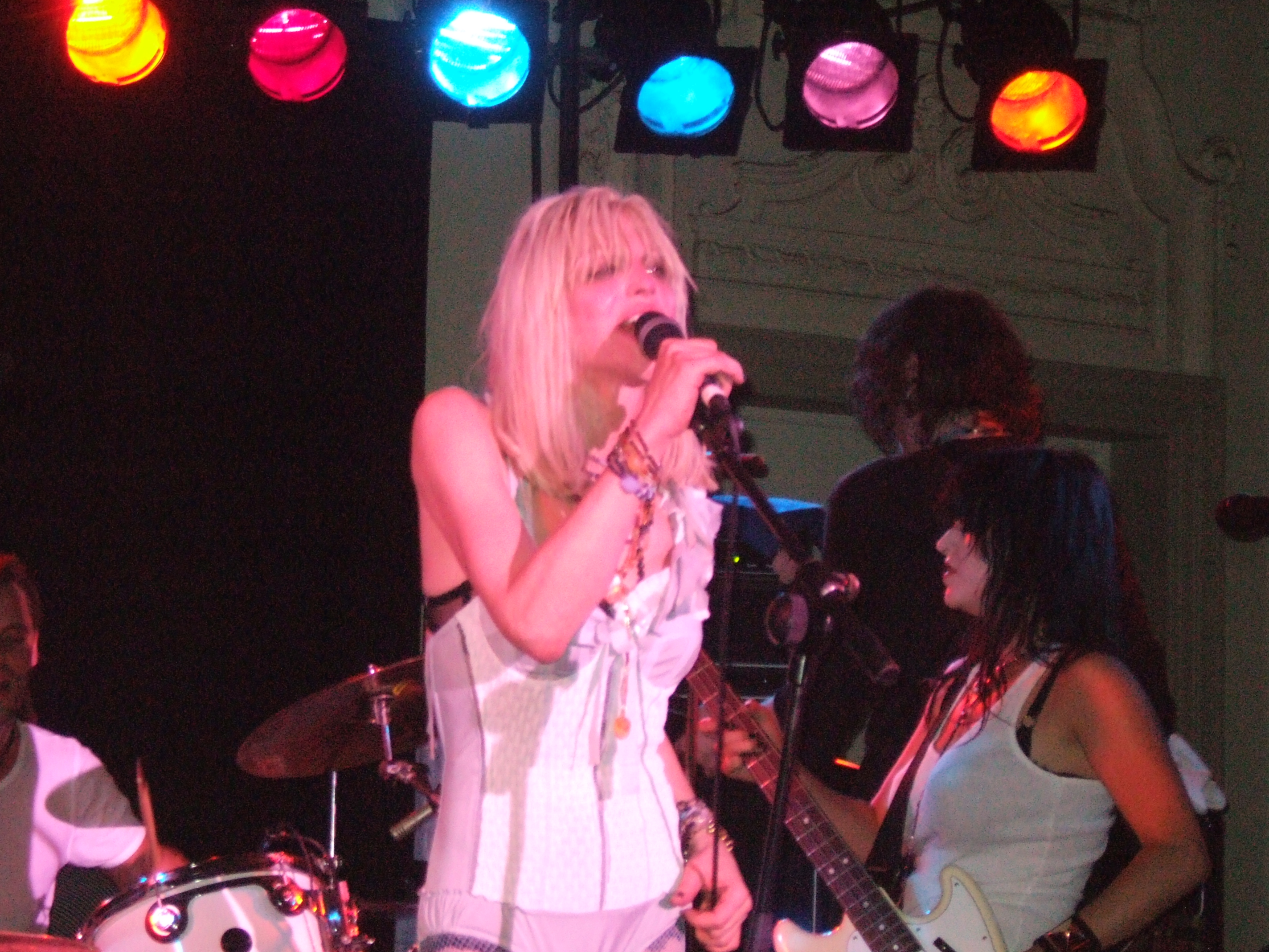 Courtney Love on stage.